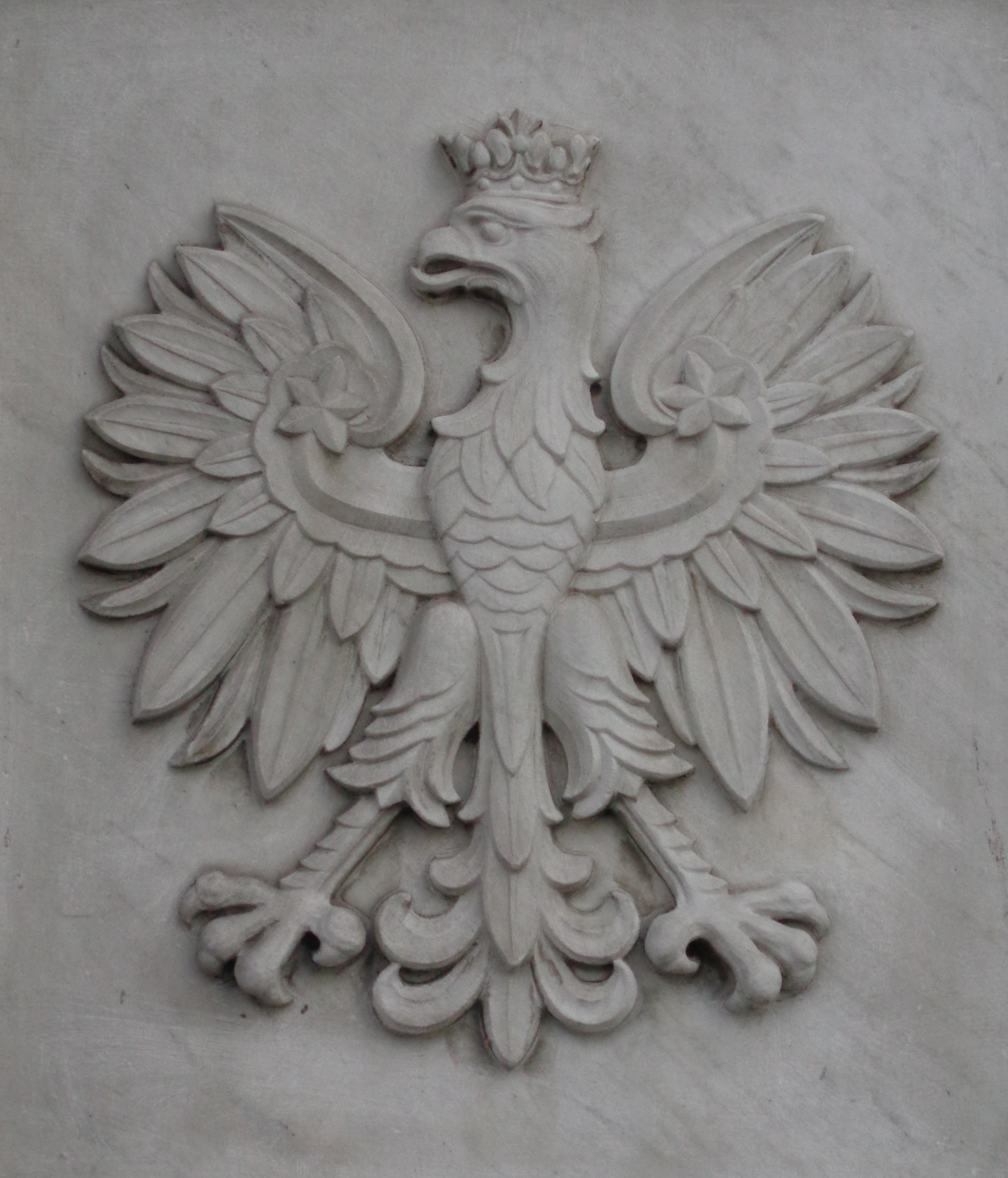 Relief with White Eaggle on Ogrodowicz family grave in Communal Cemetery in Włocławek.